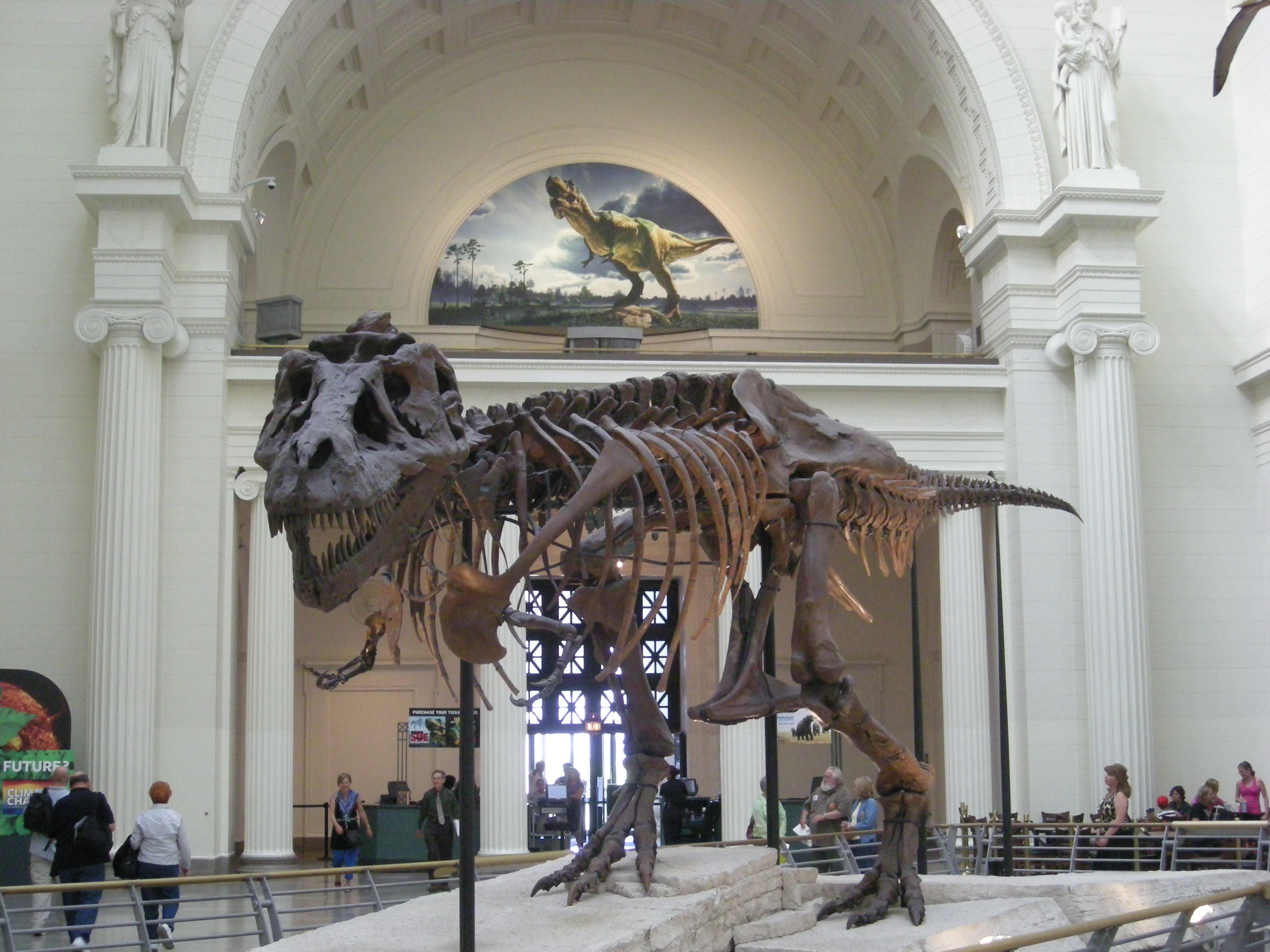 Sue in the Field Museum of Natural History in Chicago, Illinois (United States).